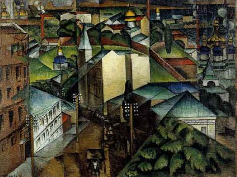 "Vue de Moscou" signé 'J. Marchand' oil on canvas 83.82 x 111.76 cm.